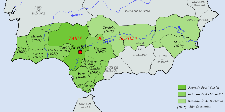 Taifa de Sevilla (S. XI)/ Emirate of Seville 11th c.